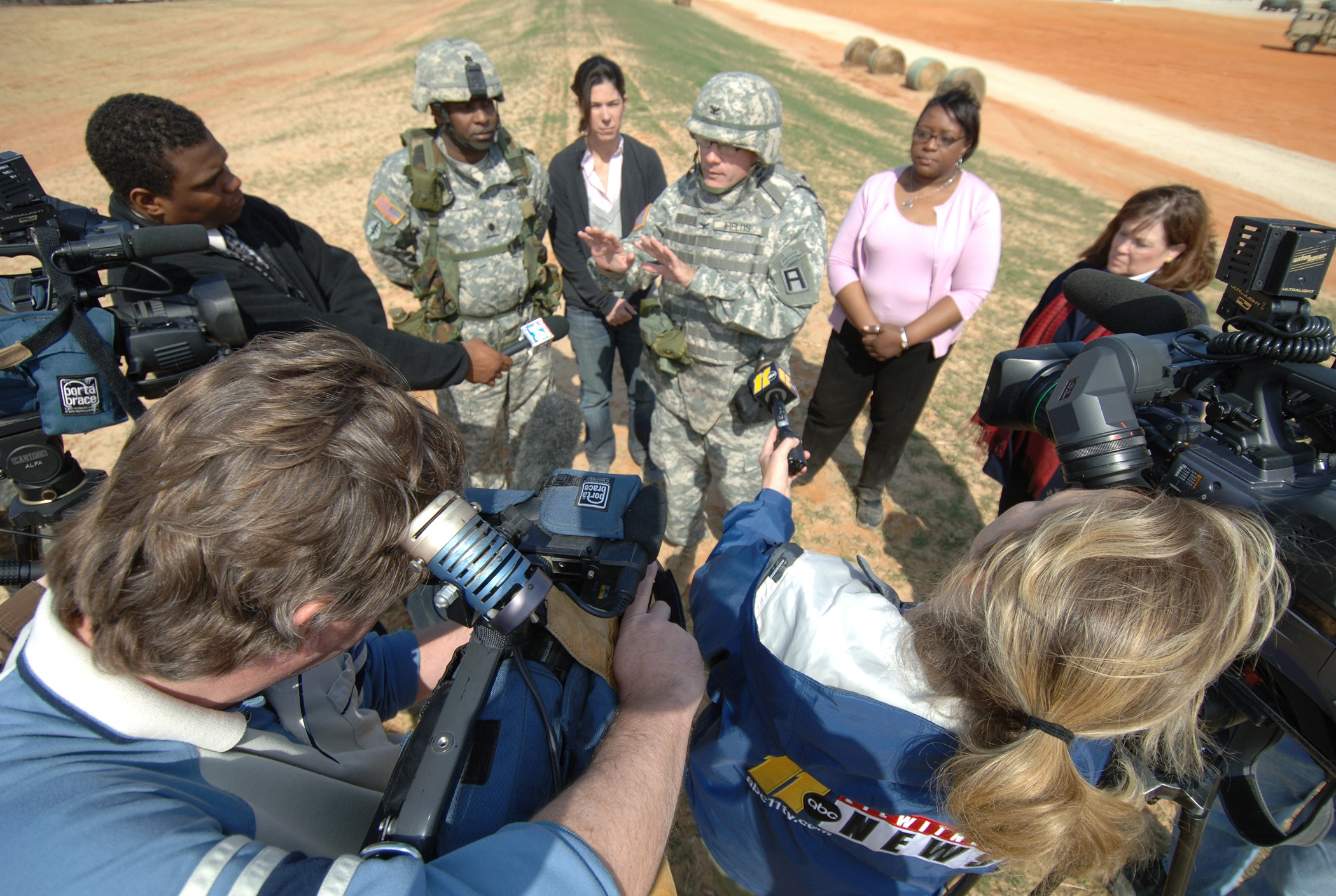 Col. Mark Fields, commander, 189th Infantry Brigade, explains the 189th's theater-immersion training doctrine to the media and tells how that training prepares the Provincial Reconstruction Teams for their mission in Afghanistan.